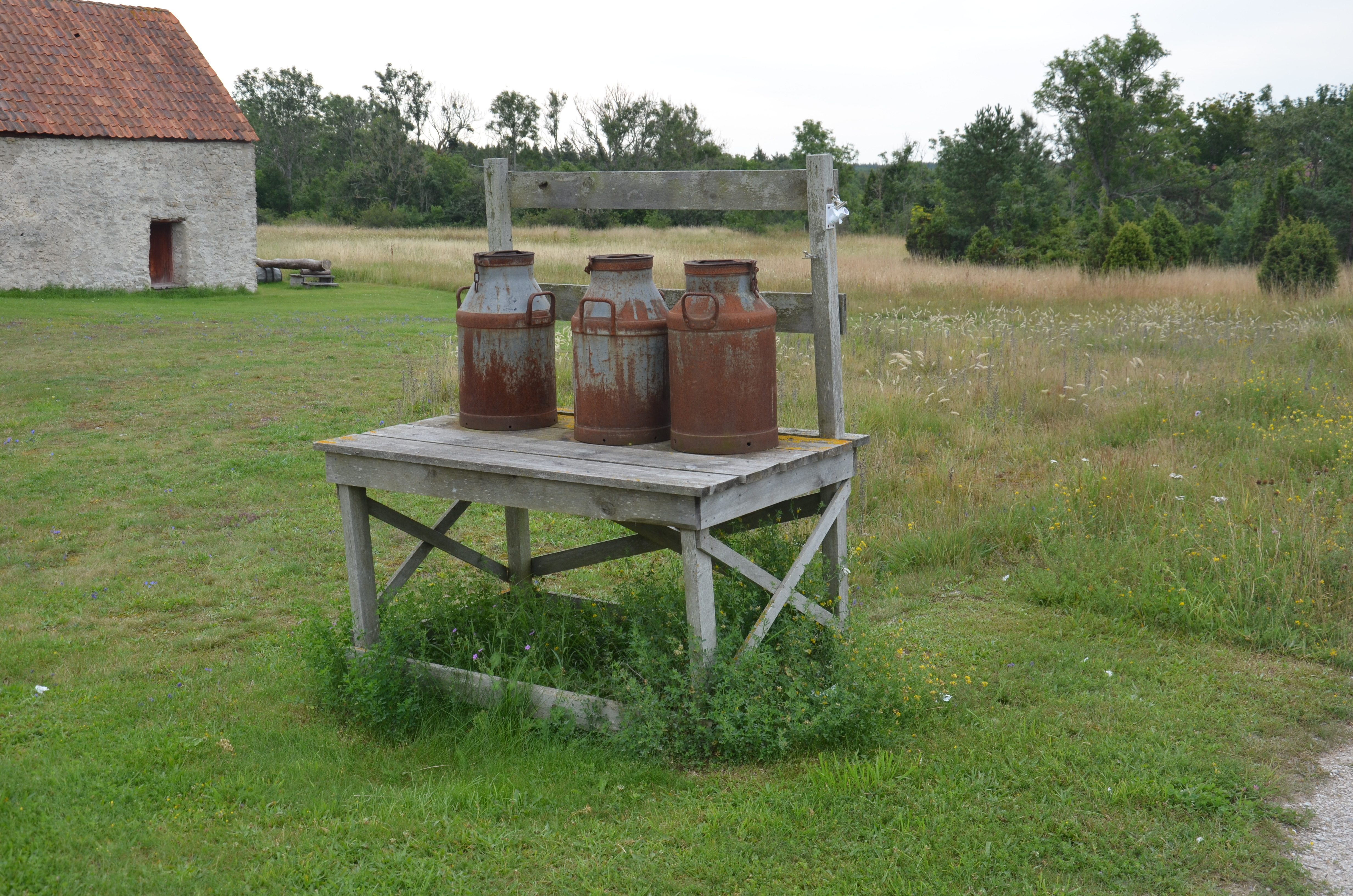 Mjölkbord, Gaustäde gård, Bunge, Gotland